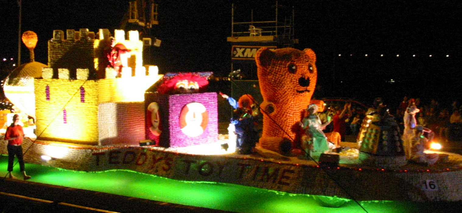 Battle of Flowers float 2007 Moonlight Parade